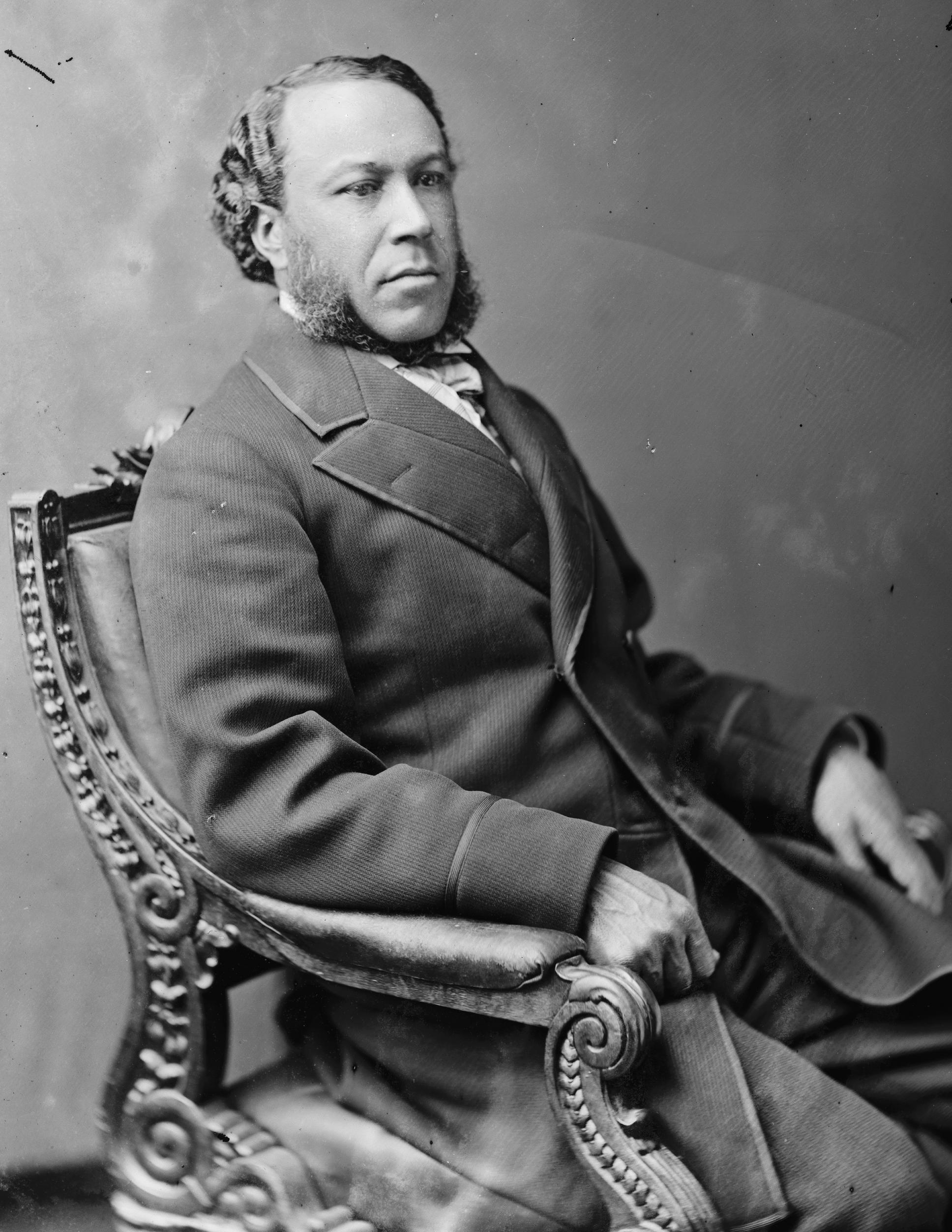 Joseph Rainey. Library of Congress description: "Rainey, Hon. Joseph Hayne of S.C.".